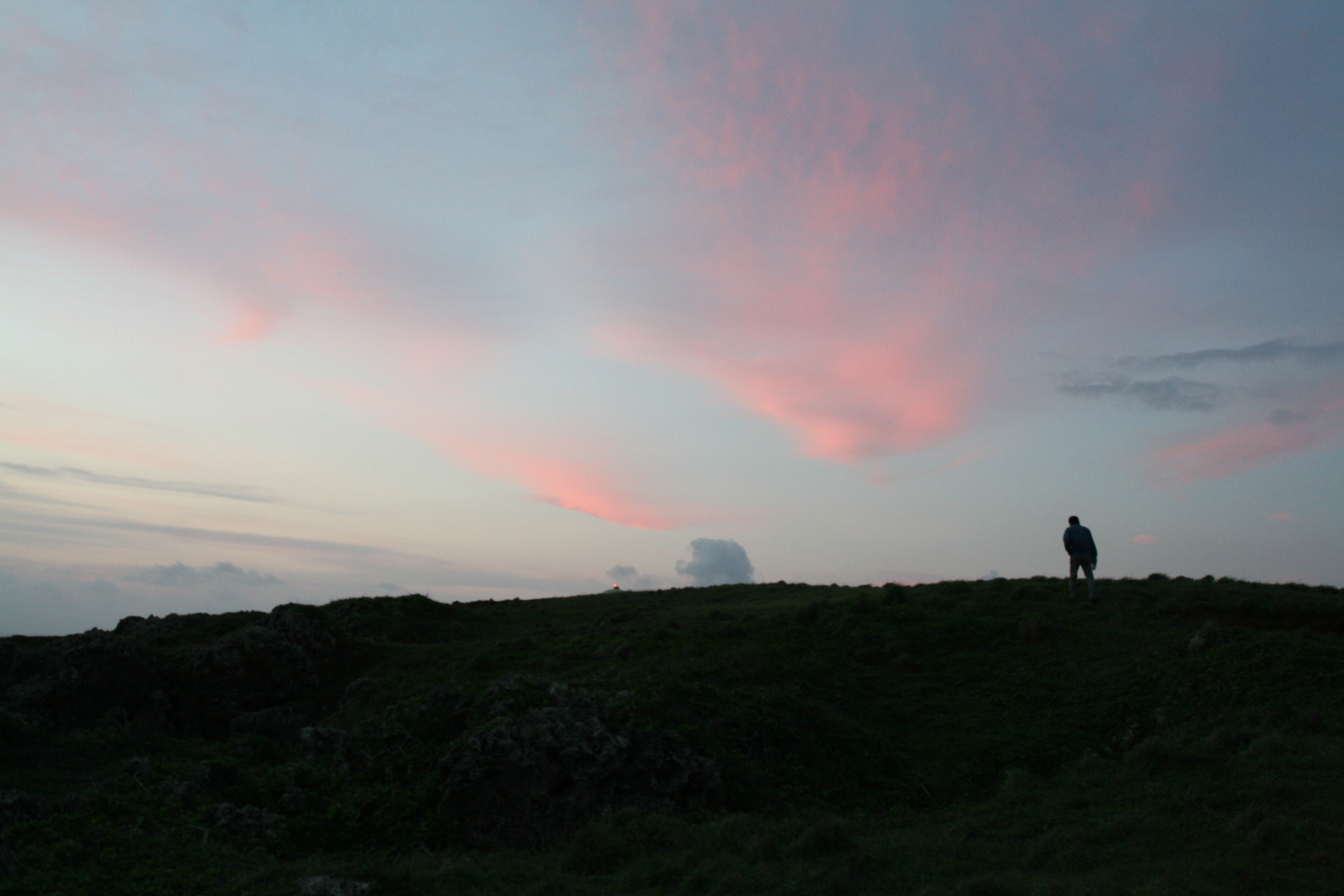 Long Pan Park, KenTing in the Morning